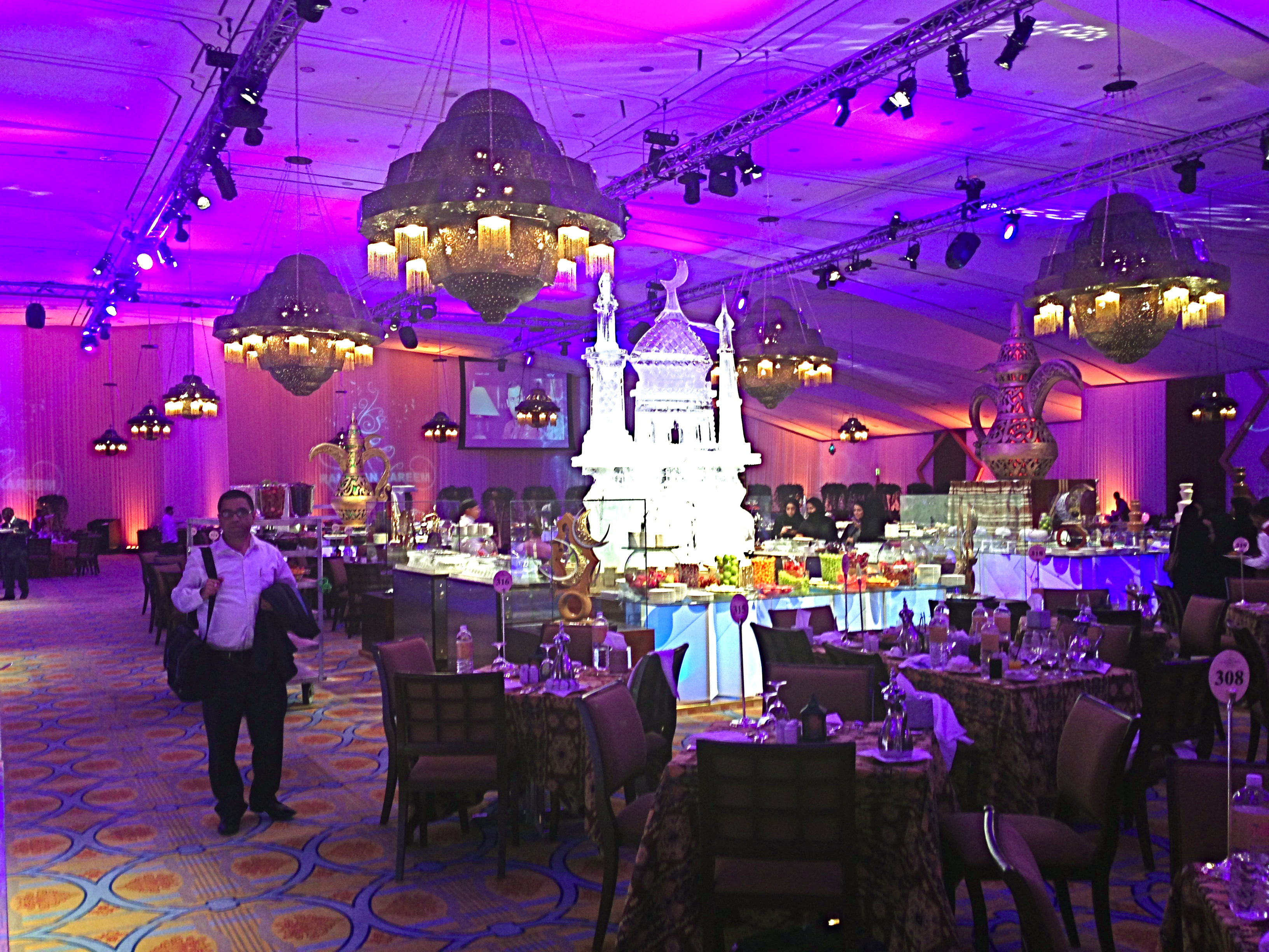 An iftar buffet at one of the 5-star hotels in Riyadh during Ramadan